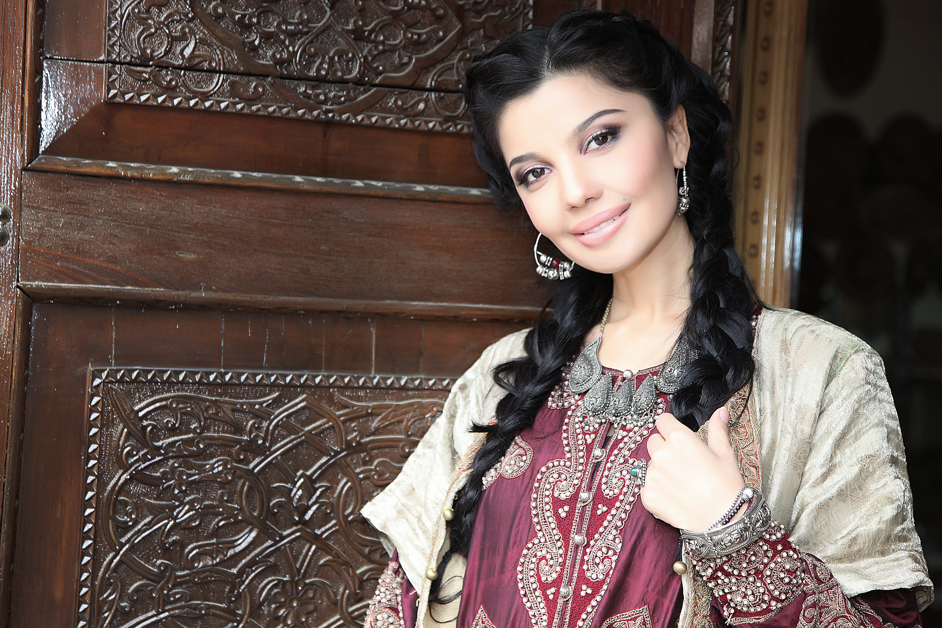 The Uzbek singer Shahzoda in 2012.